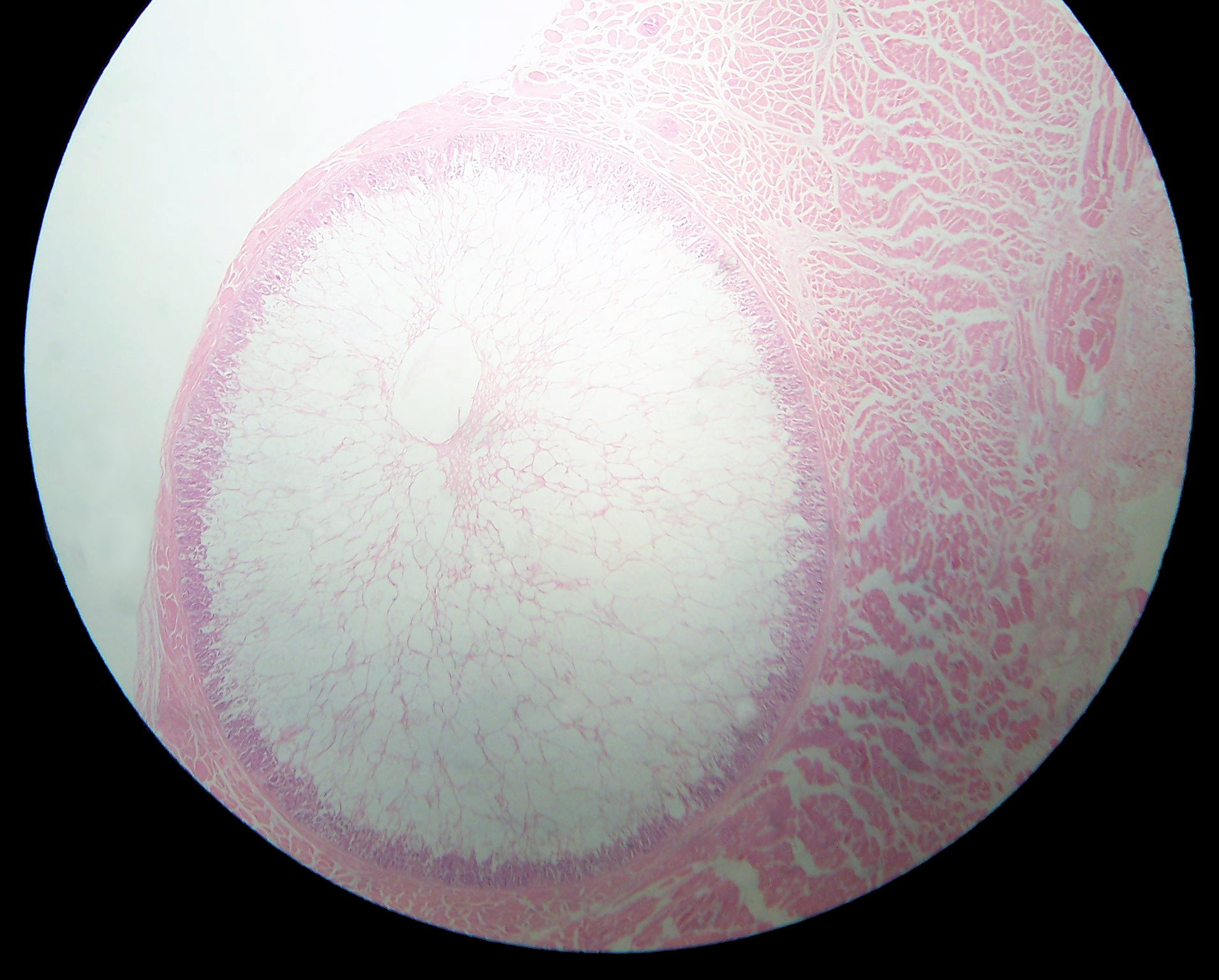 Sarcocystis in a sheep oesophagus. Photograph taken from teaching slides at the University of Edinburgh. The cyst is approximately 4mm across.